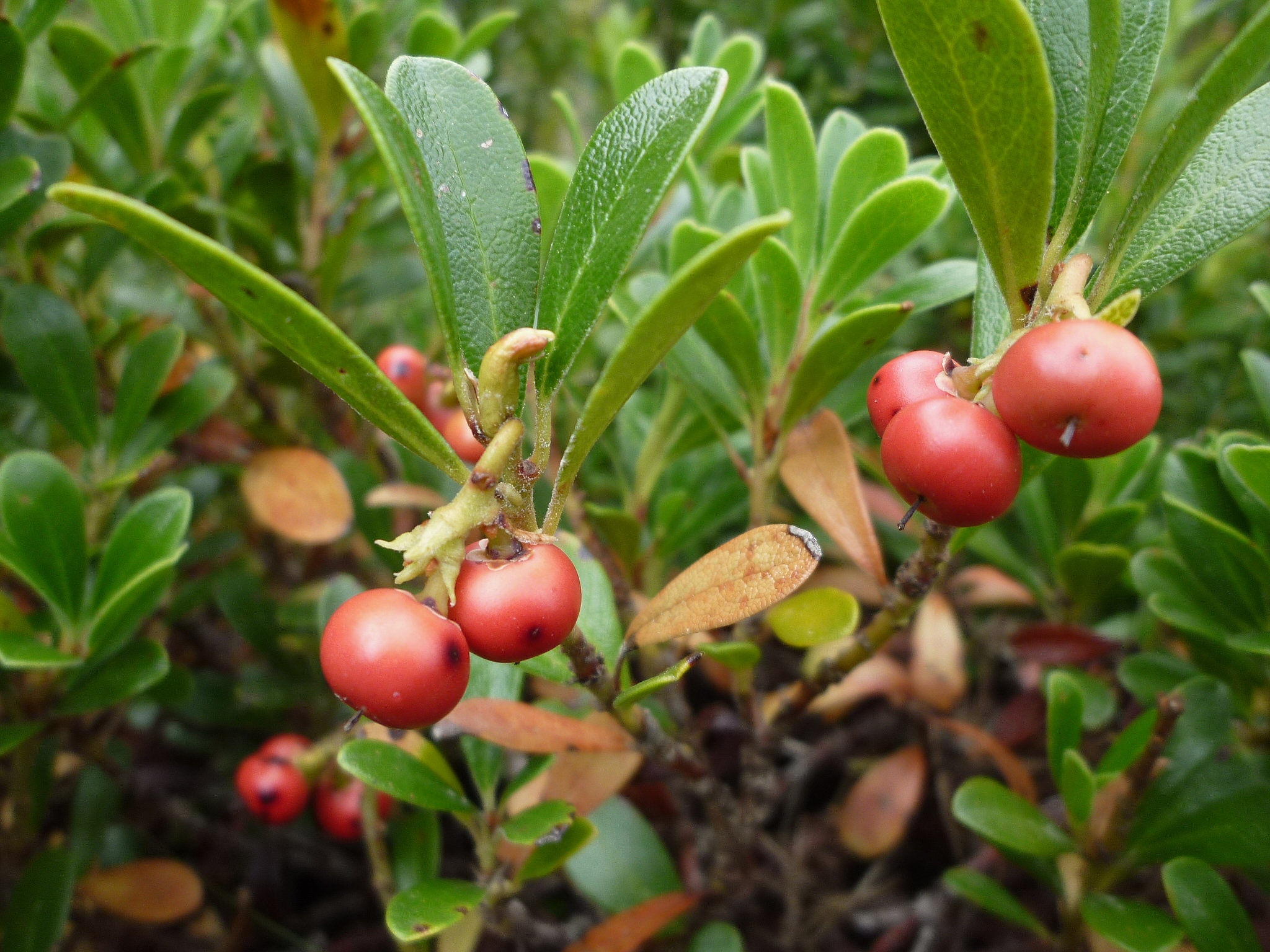 Arctostaphylos uva-ursi. In la Bòfia, Guixers (Solsonès - Catalunya). To 1.700 m. altitude